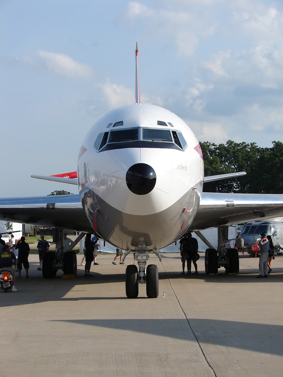 a really good looking bird!